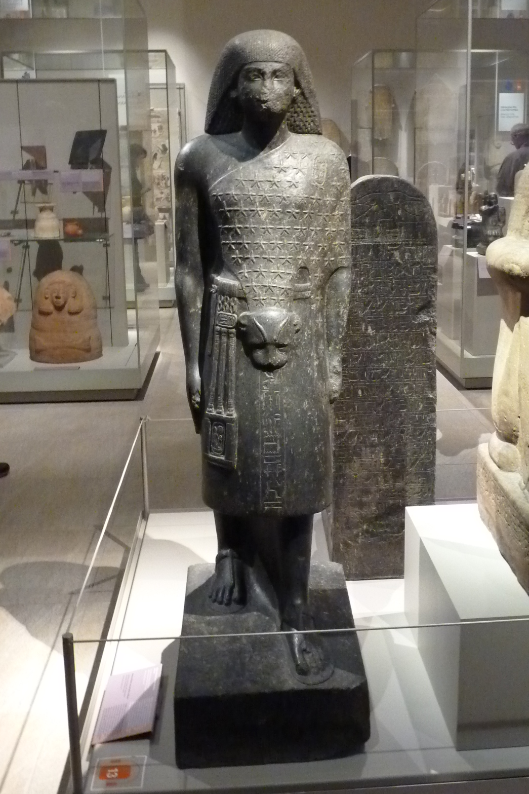 Statue of the ancient Egyptian official Aanen. He was a second priest of Amun, an astronomer priest (as the stars on his leopard skin suggest), and held several other titles. He officiated during the reign of his brother-in-law, pharaoh Amenhotep III of the 18th Dynasty, New Kingdom. Granodiorite from Thebes, found by Drovetti in 1824. Turin, Museo Egizio, cat. 1377.